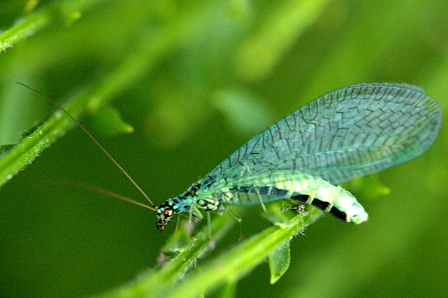 Picture taken in Commanster, Belgian High Ardennes. Species: Chrysopa perla